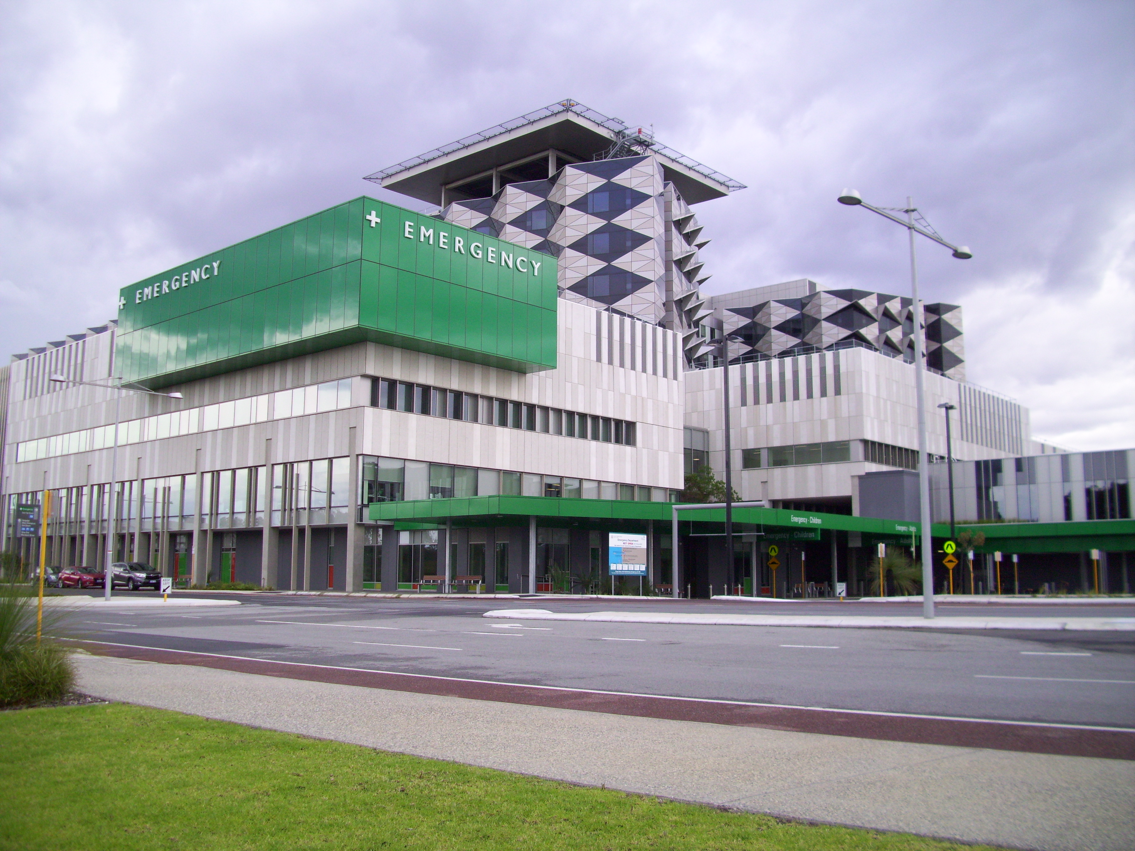 Fiona Stanley Hospital, October 2014. Emergency department, located along Robin Warren Drive.